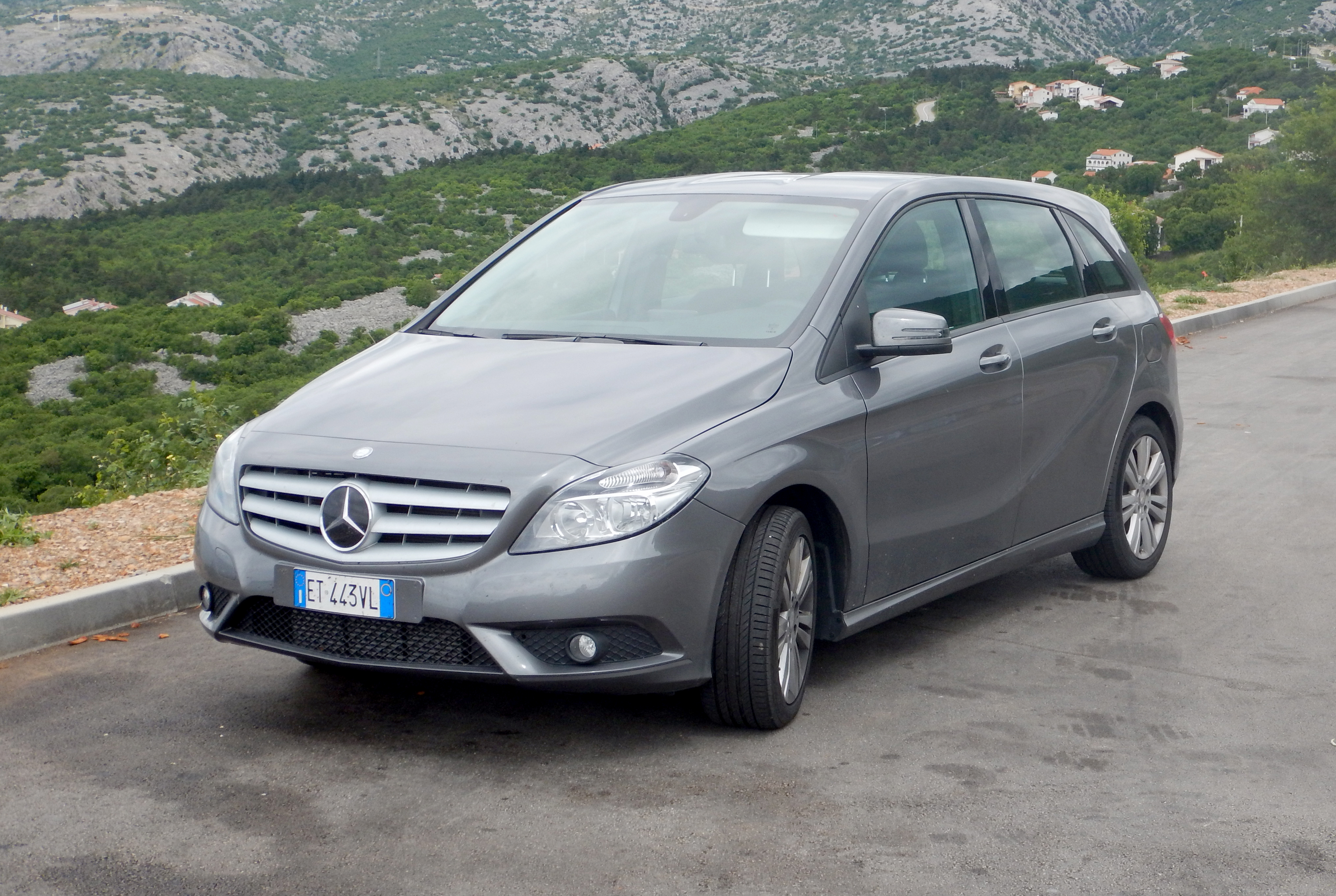 Mercedes-Benz B-Class 2014, in Croatia.